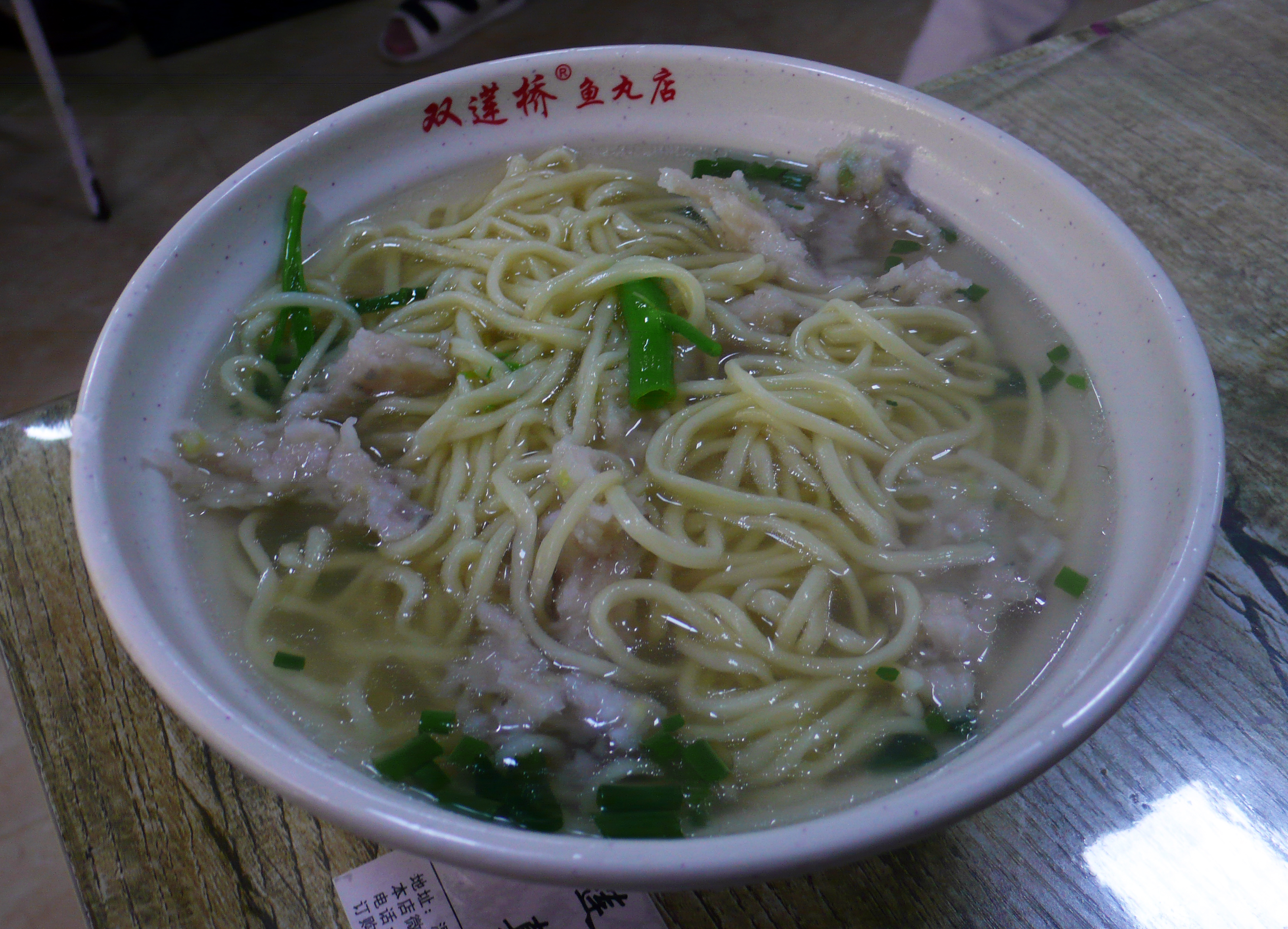 Wenzhou fish-ball noodles. Wenzhou fish-balls are actually not round balls, though.